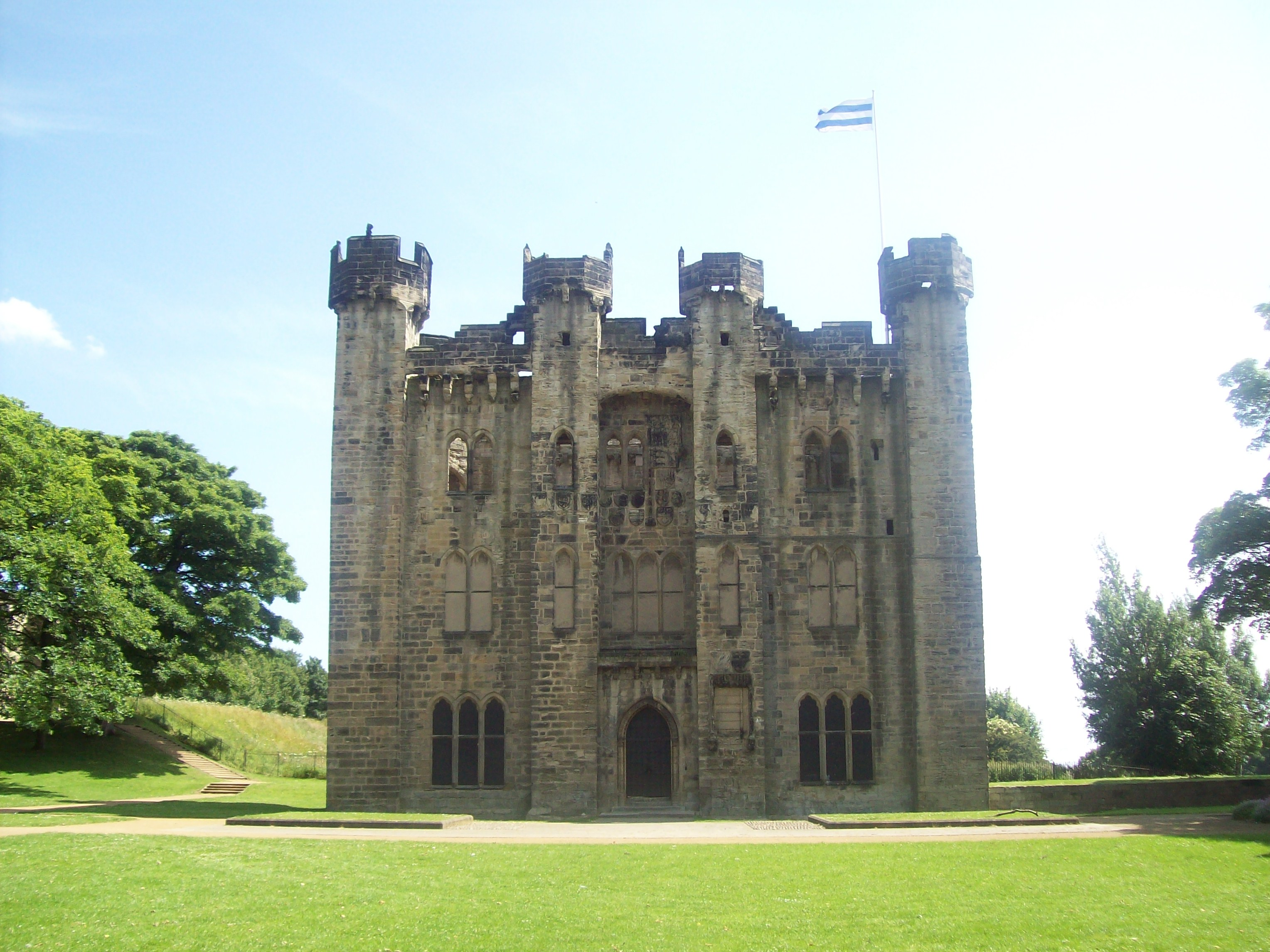 West face of Hylton Castle in Tyne and Wear, England.